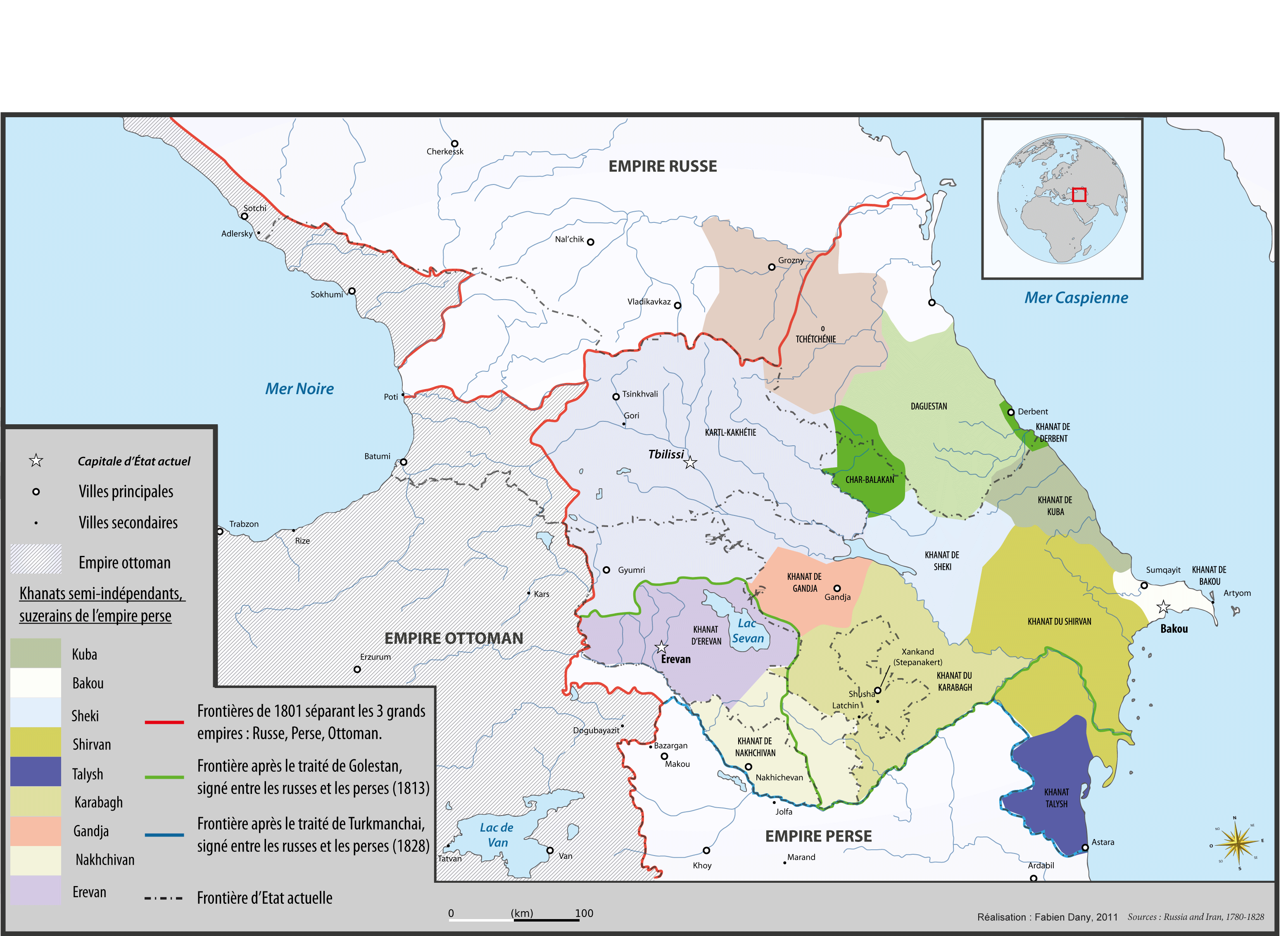 Map of caucasian khanates and struggle between persian and russian empire during the 19th century